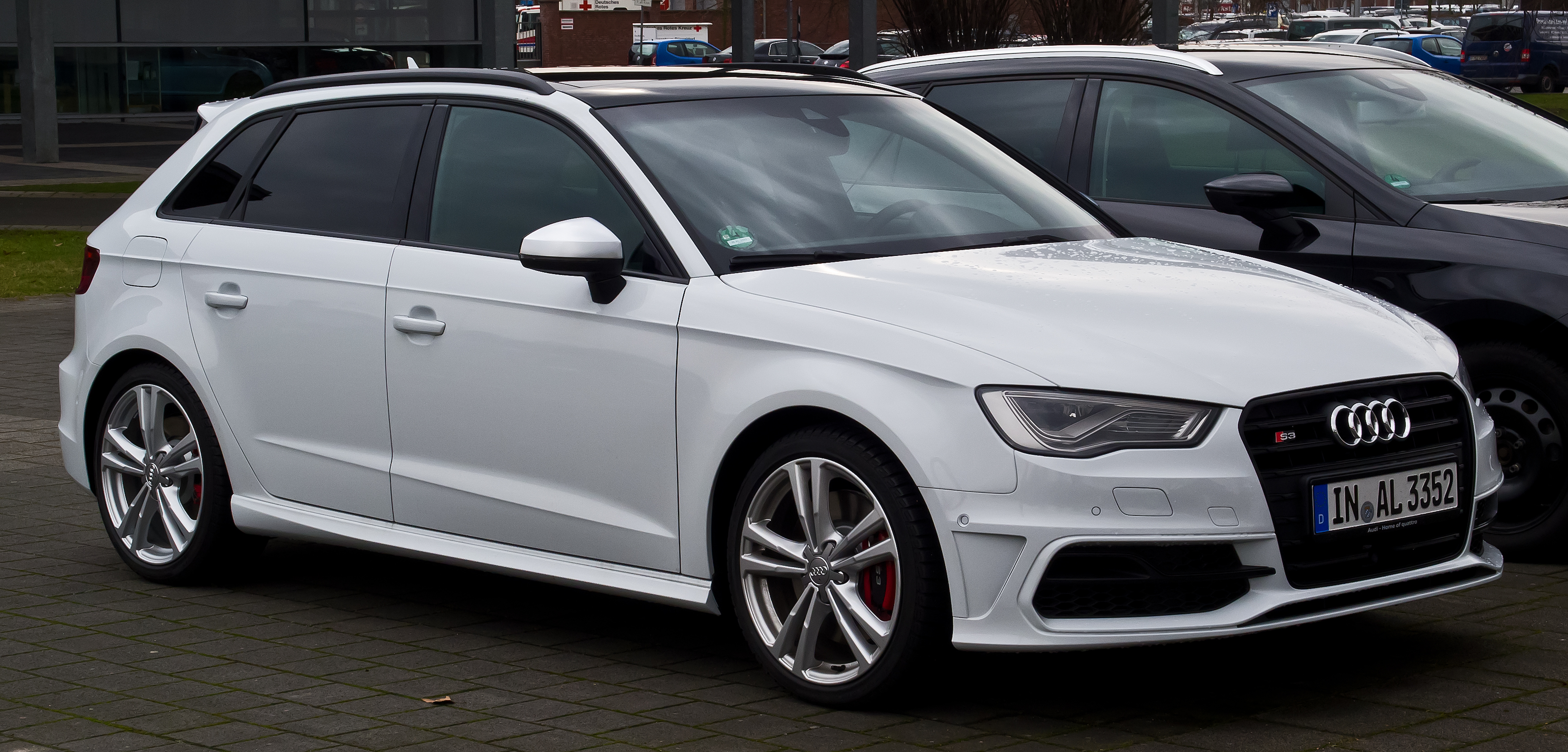 Audi S3 Sportback (8V)